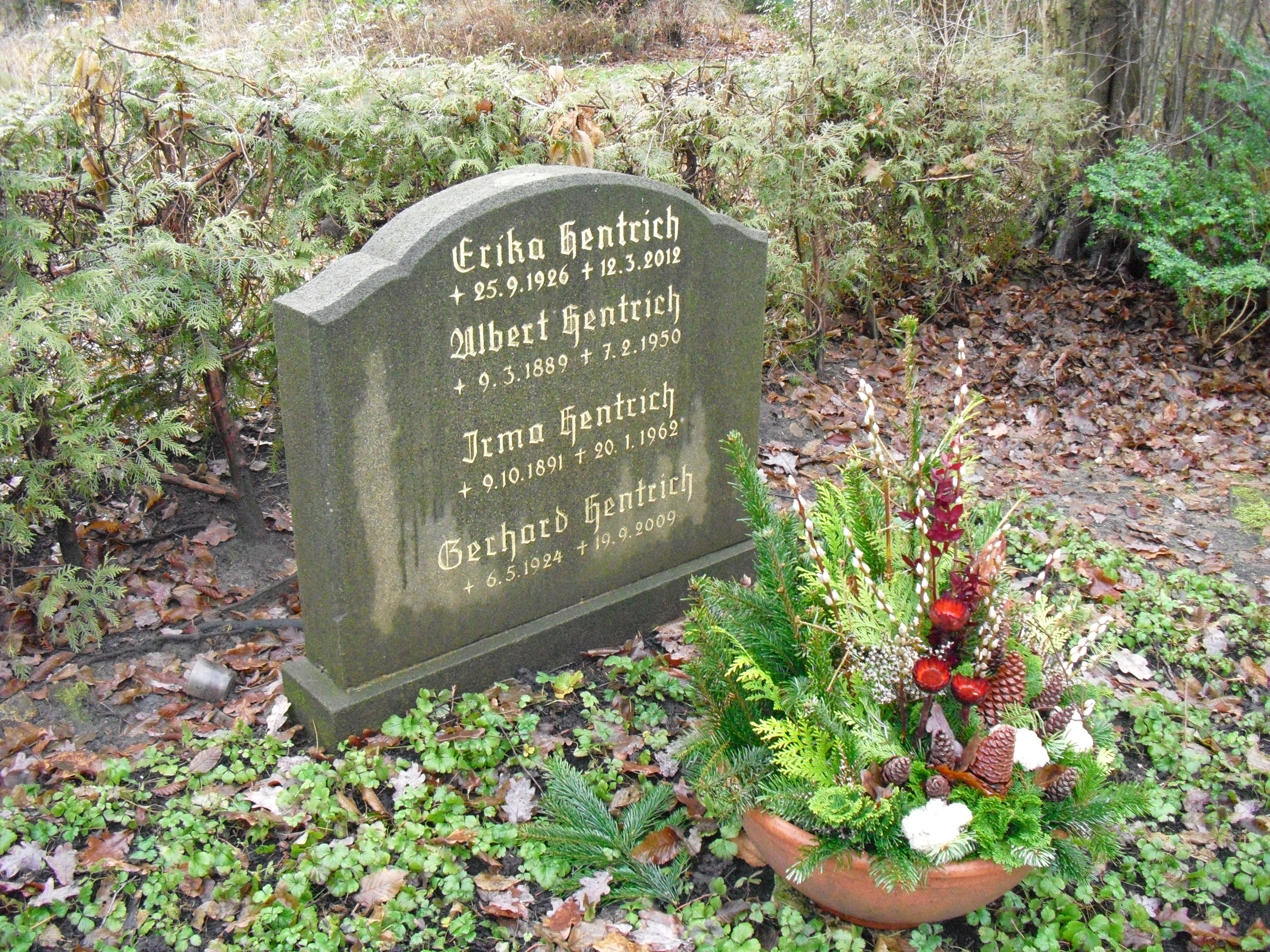 Grave of German publisher Gerhard Hentrich in Friedhof Steglitz, Berlin-Steglitz.